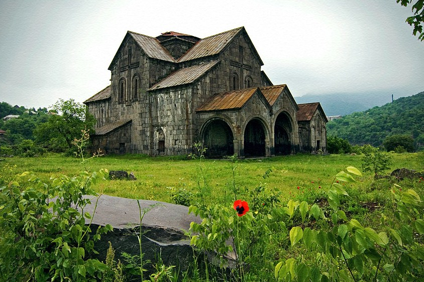 Axtala Ch., Armenia